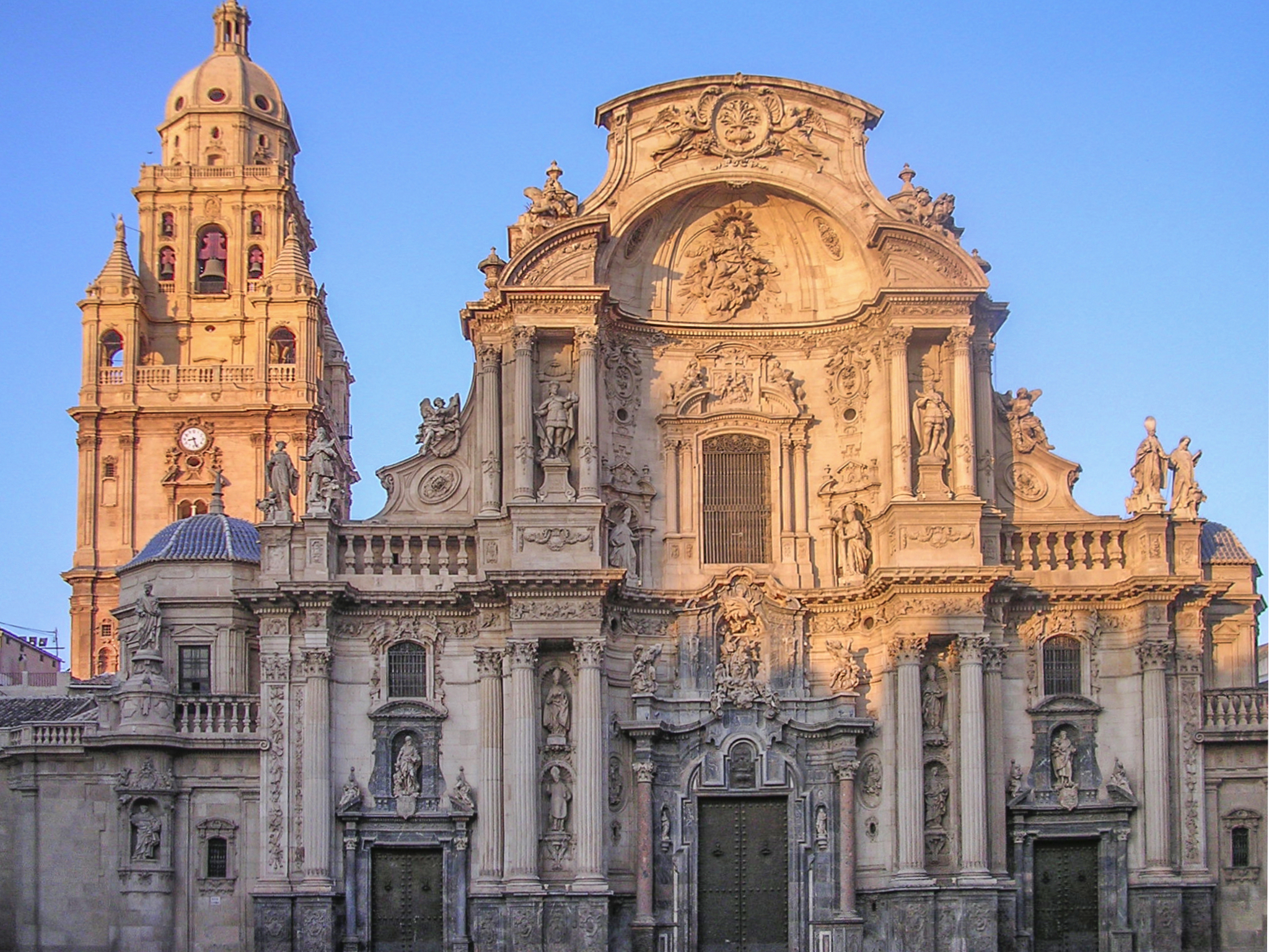 Barcelona, Spain